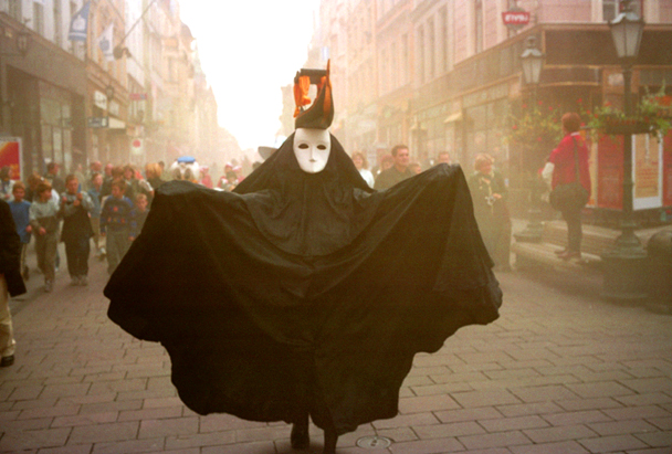 Torun, Poland, street theatre